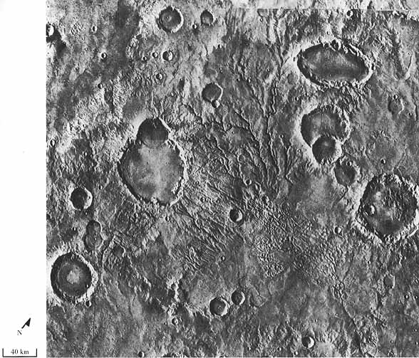 Dissected channels, as seen by viking. Location is 25 S and 10 W.